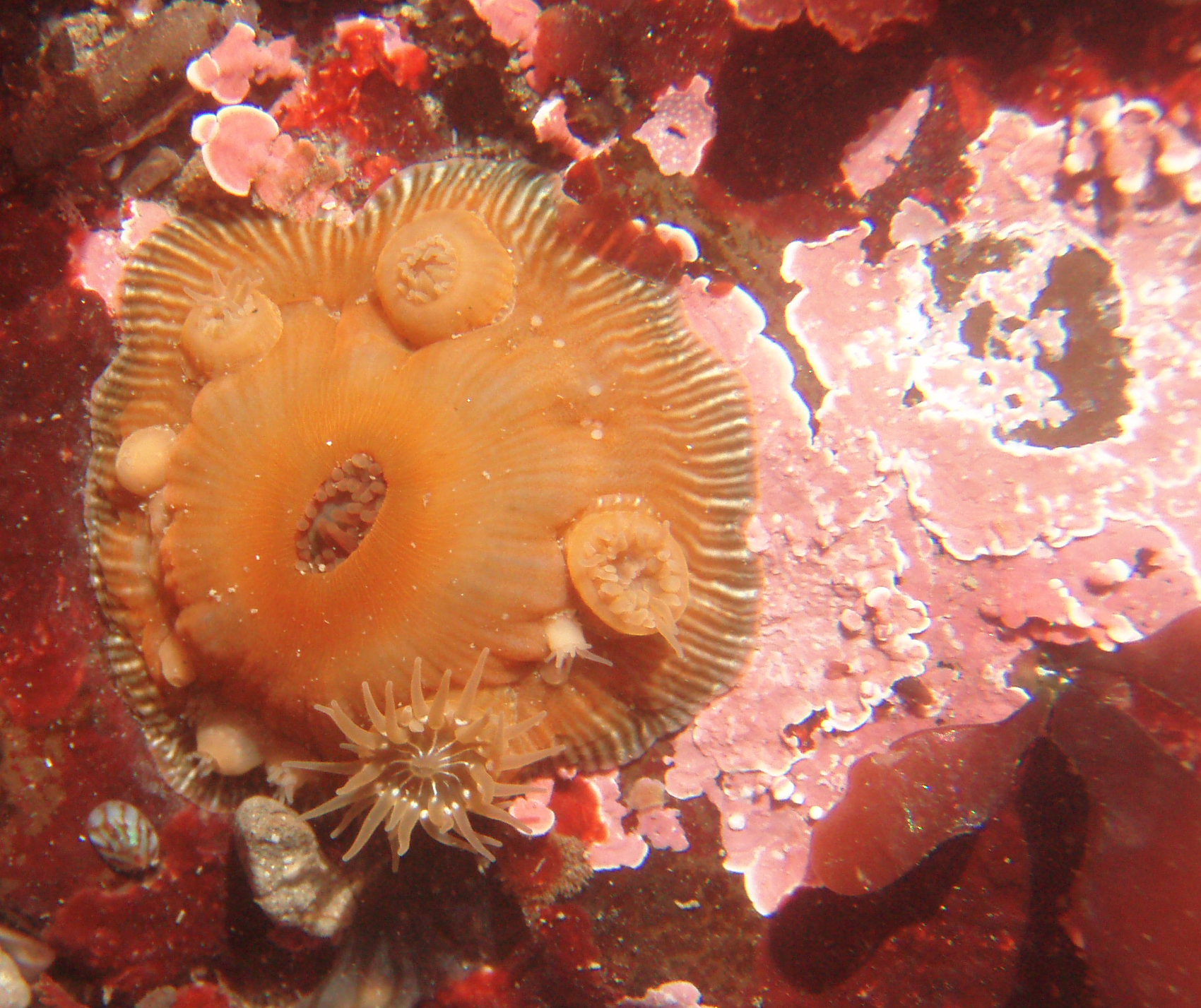 Brooding Sea Anemone,Epiactis prolifera.The numerous young are seen on the pedal disk are derived from eggs fertilized in the digestive cavity. The motile larvae, after swimming out of the mouth, migrate down to the disk and becomes installed there until they become little anemones ready to move and be able to feed themselves.